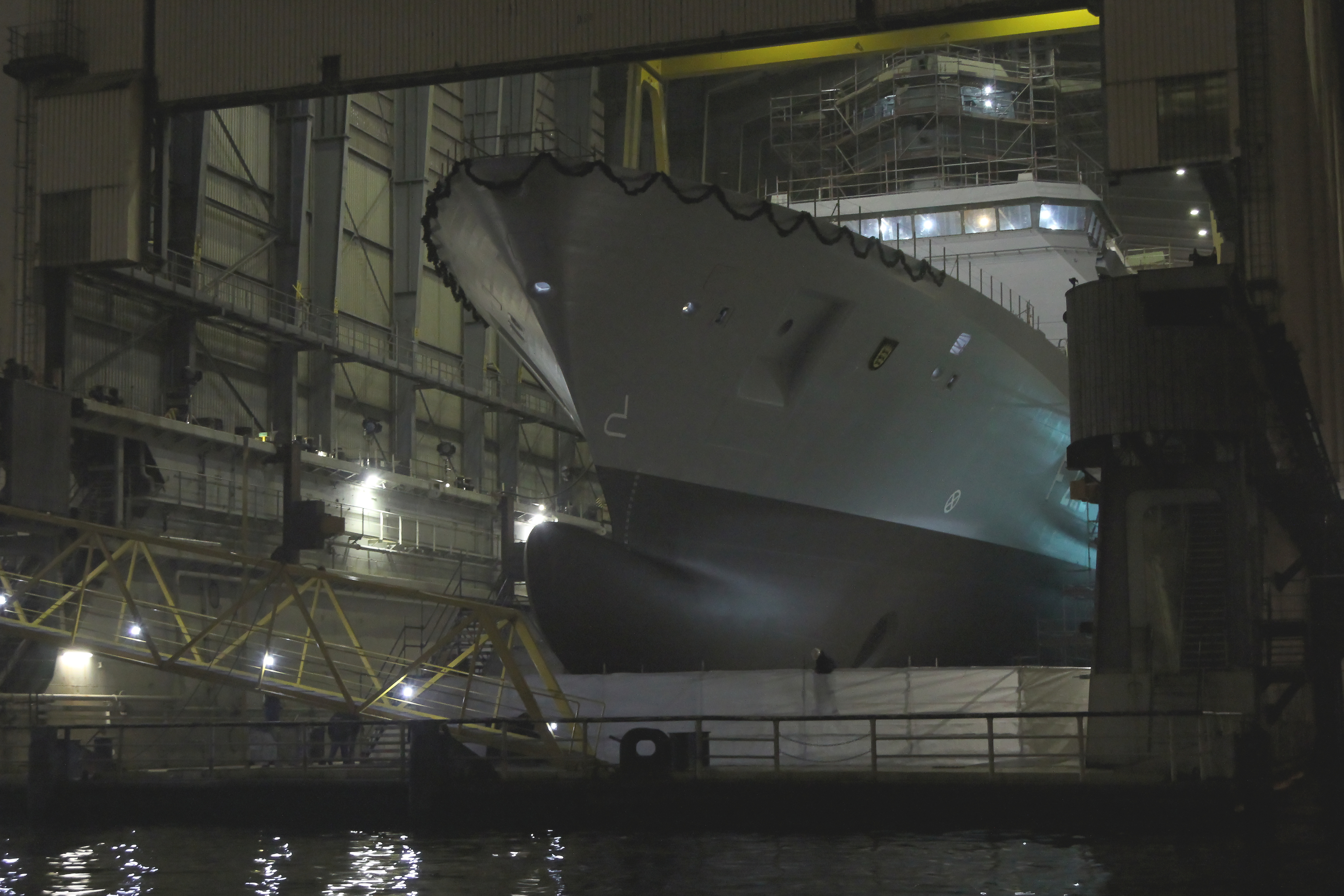 German frigate F222 Baden-Württemberg during build at Blohm&Voss in Hamburg